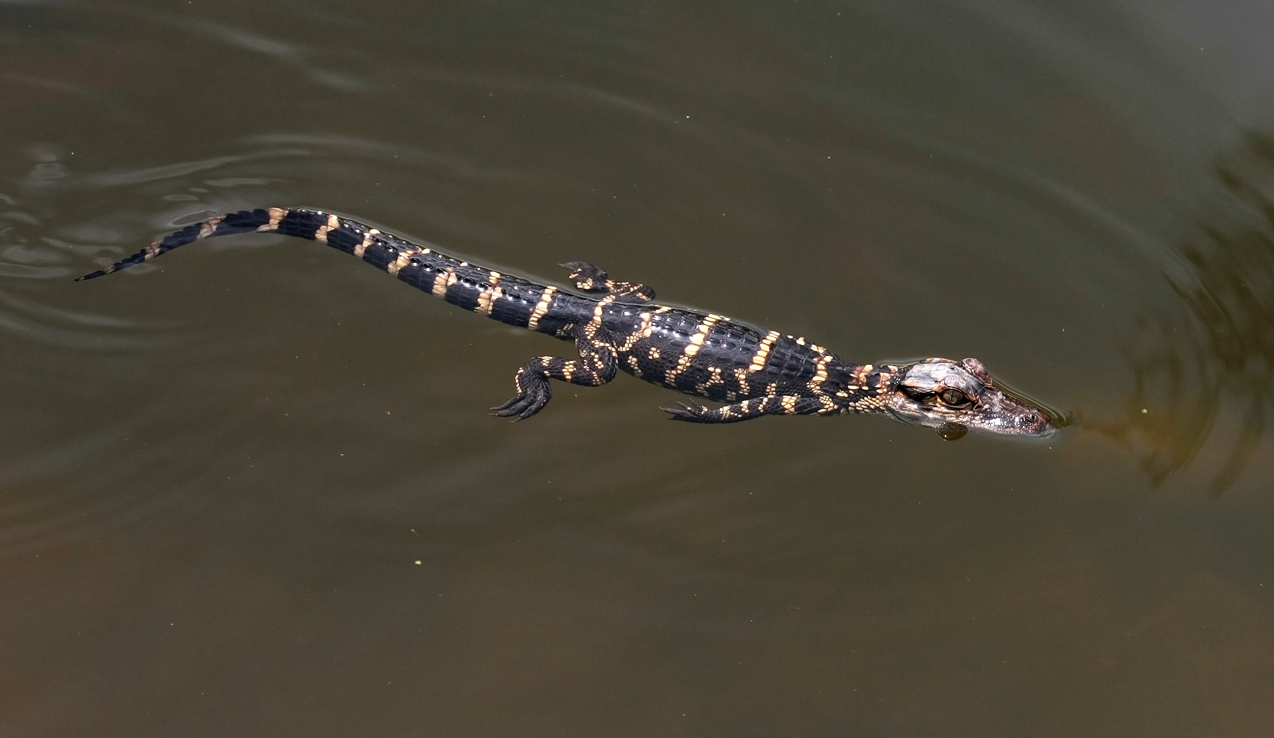 Baby American alligator (Alligator mississippiensis), Miami-Dade county, Florida